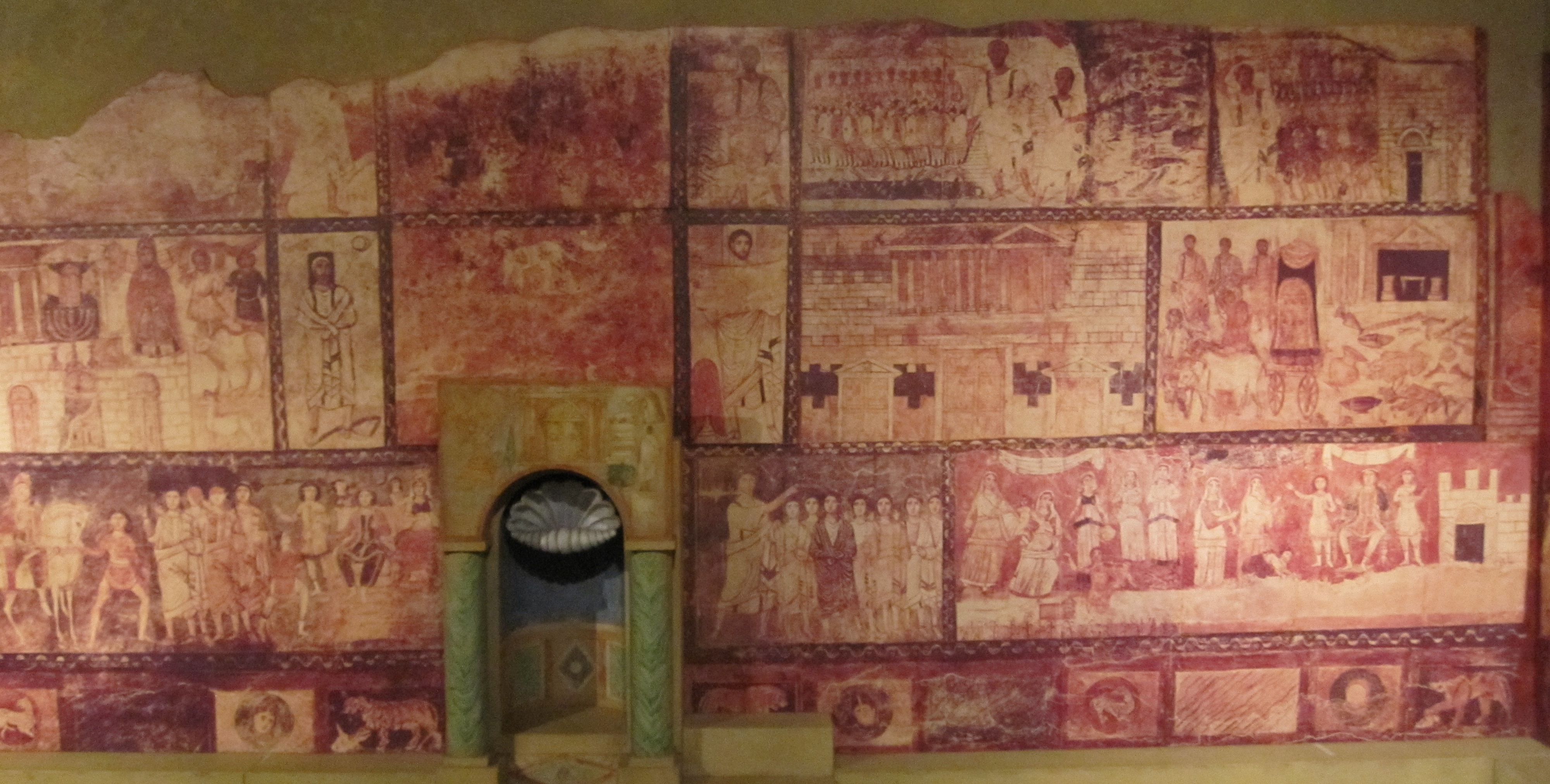 This is a photo of an exhibit at the Diaspora Museum, Tel Aviv - Beit Hatefutsot. Replica of a wall of Dura Europos Synagogue